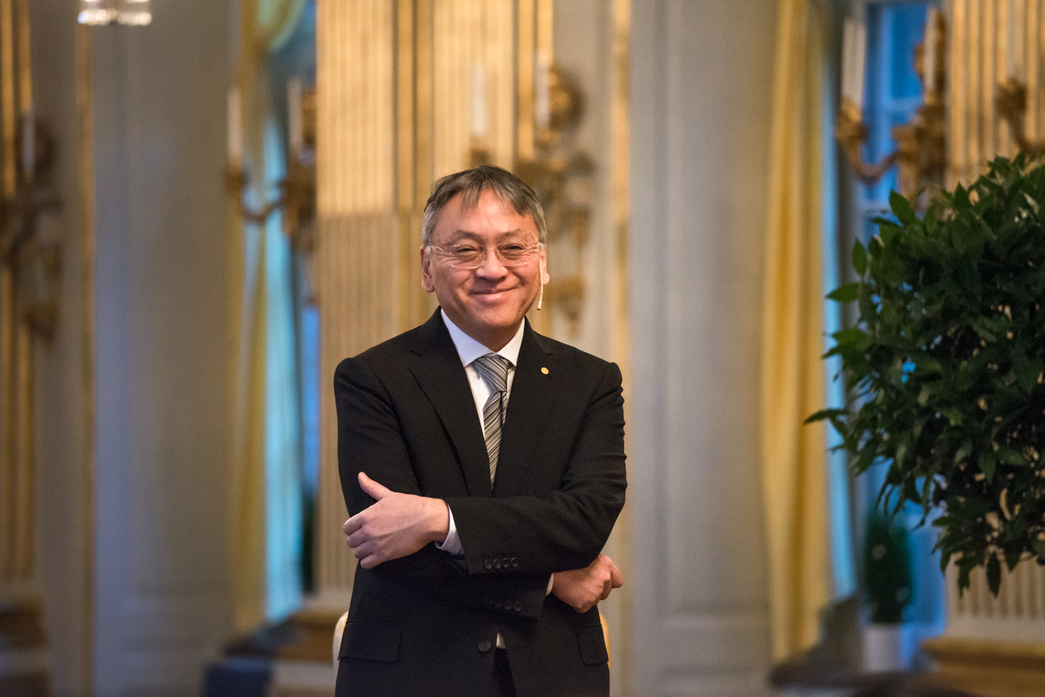 Kazuo Ishiguro in the Stockholm Stock Exchange during the Swedish Academy's press conference on December 6, 2017.